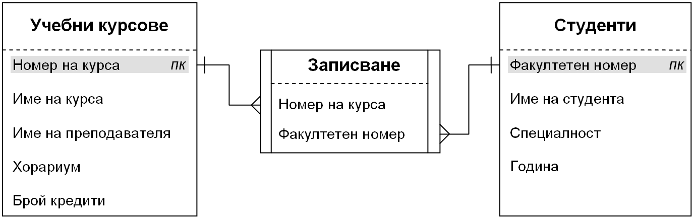 Many-to-many database relationship, in Bulgarian